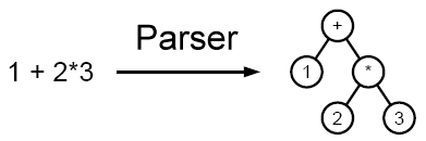 Example of Parsing